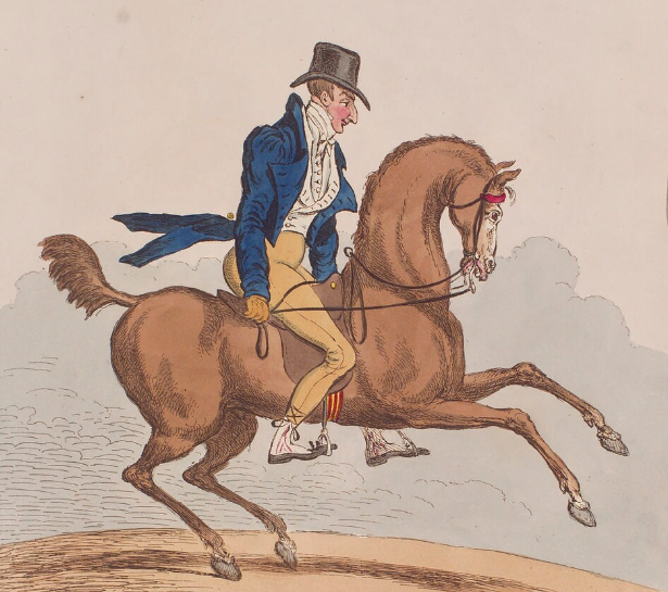 Darwing Henry Augustus Dillon (How to break in my own horse) by James Gillray